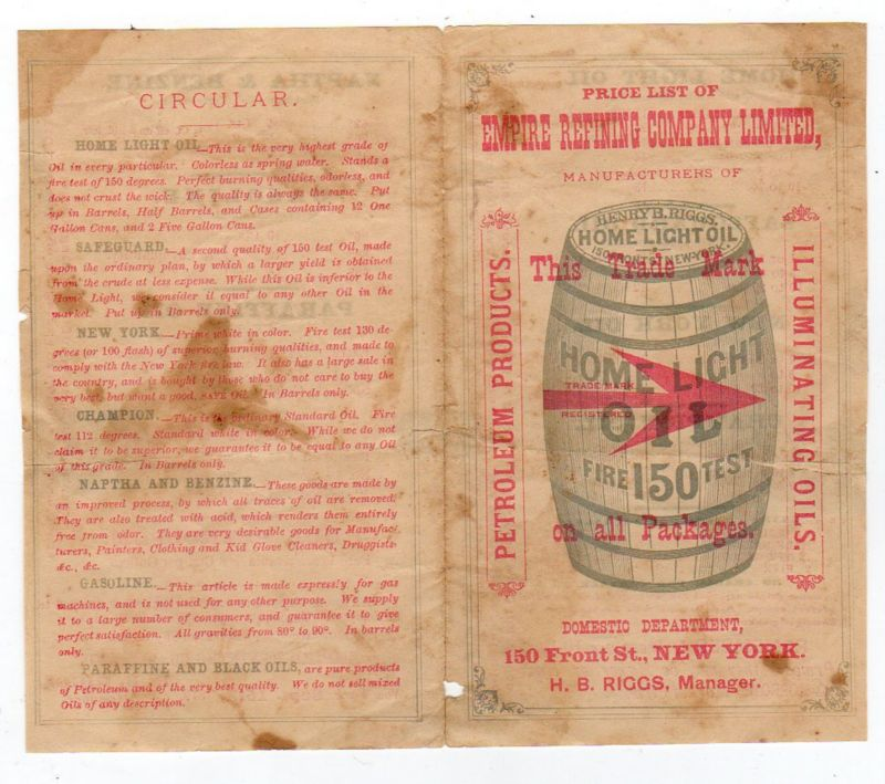 Advertisement for Empire Refining Company, Ltd. of New York, New York, 1879. Store web page states: "1879 EMPIRE REFINING CO ADV FLYER PETROLEUM PRODUCTS" and "little color litho advertising flyer, PRICE LIST OF THE EMPIRE REFINING COMPANY LIMITED, MANUFACTURERS OF HENRY RIGGS HOME LIGHT OIL, FRONT STREET NEW YORK. 5 1/2 X 6"; only one side of the brochure is shown (store did not show other side)